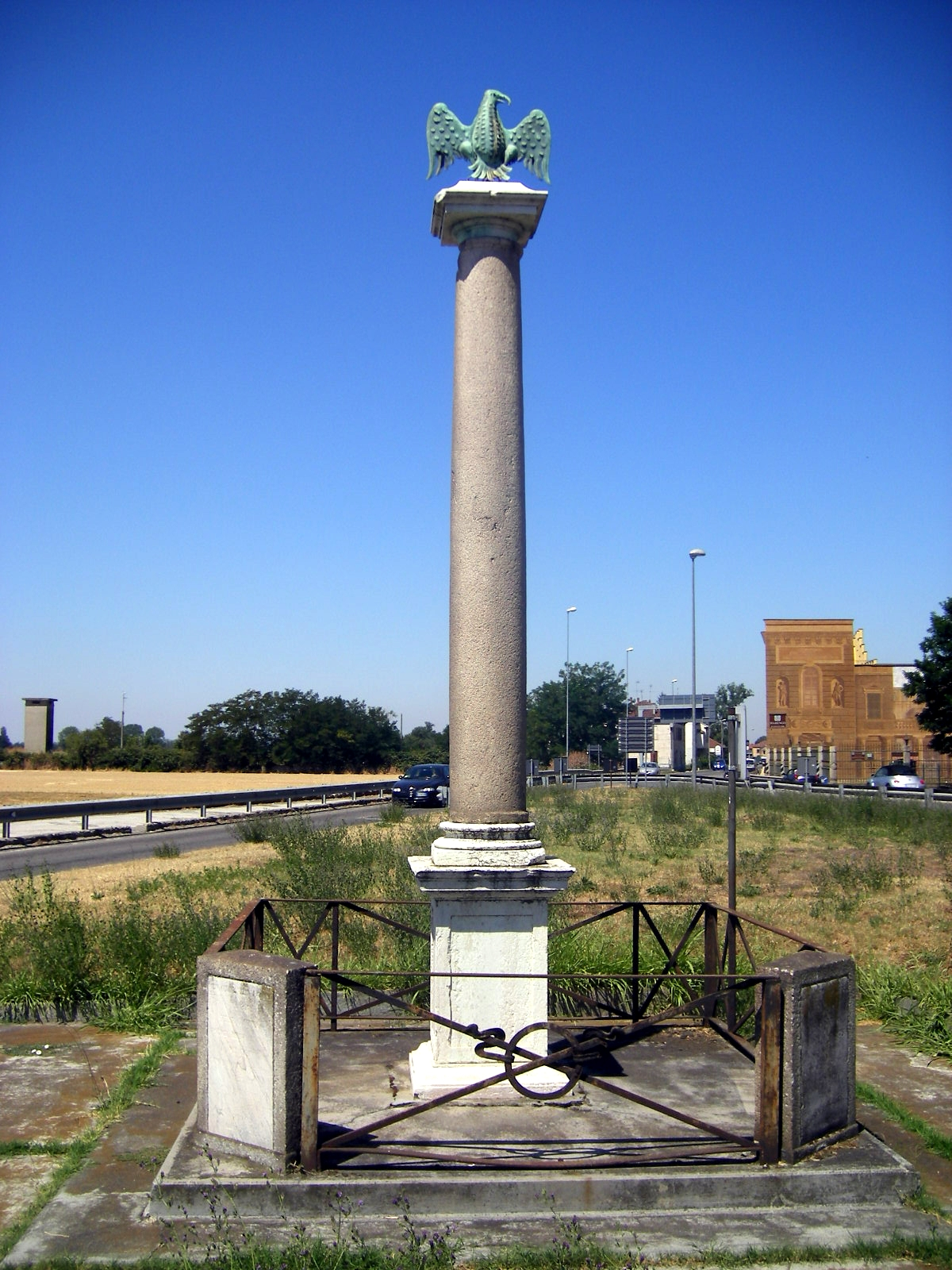 Battle Memorial in Marengo (Alessandria)